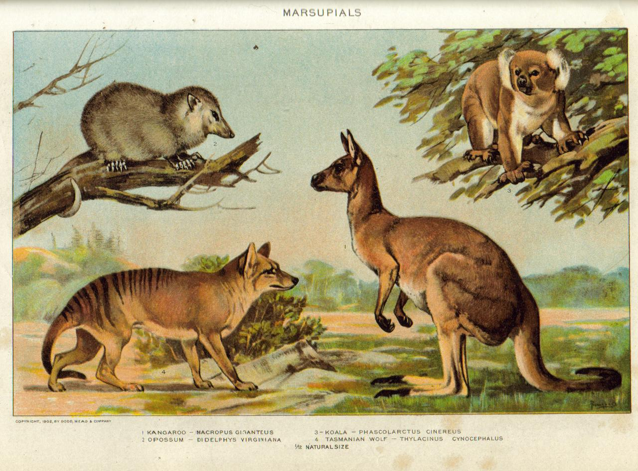 New International Encyclopedia: Painting of Marsupials 2: Opossum - Didelphys virginiana 3: Koala - Phascolarctus cinereus 4: Tasmanian wolf - Thylacinus cynocephalus 1: Kangaroo - Macropus giganteus 1/12 (of) natural size